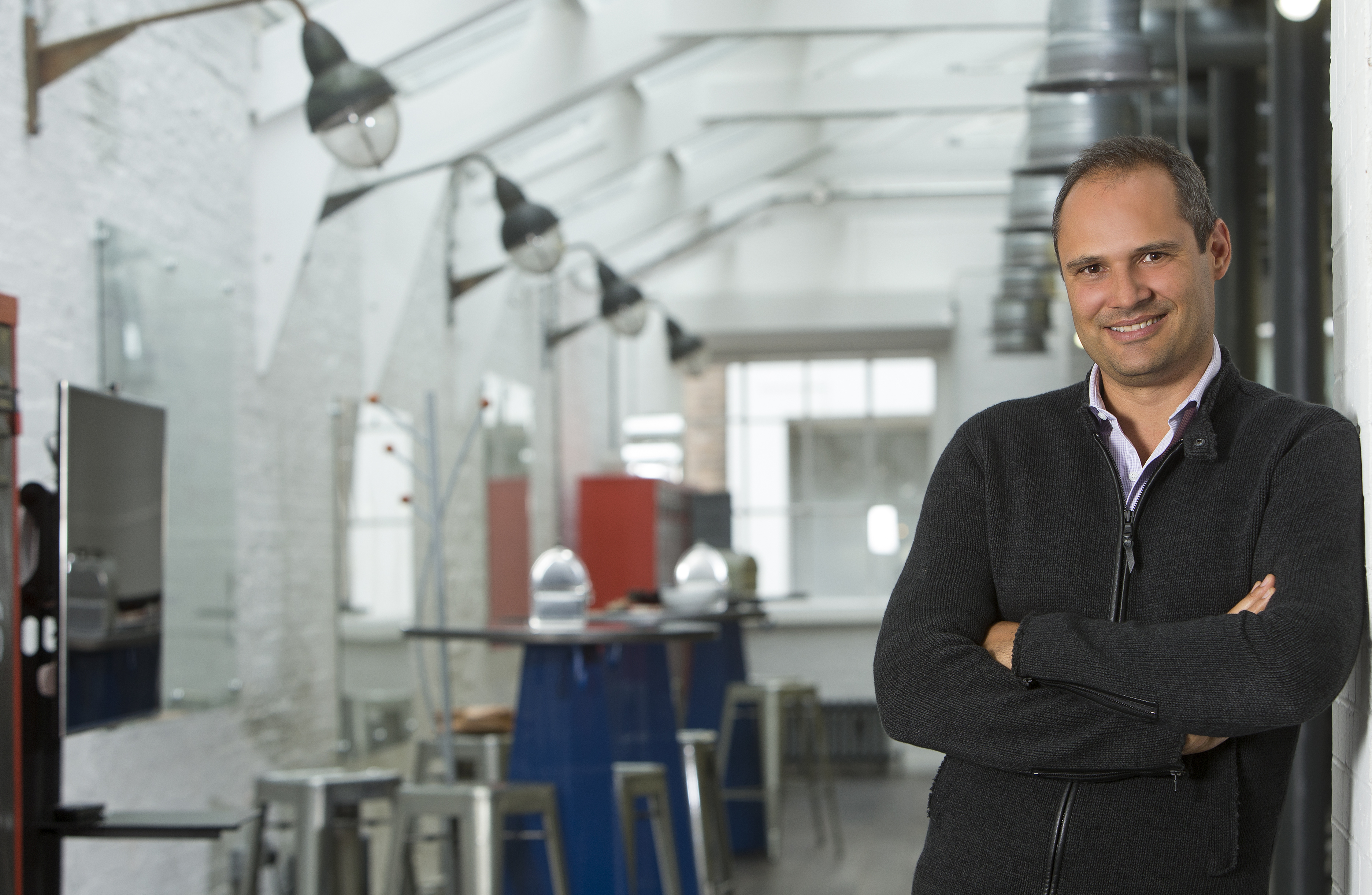 Lars Fjeldsoe-Nielsen at Balderton Capital (UK) LLP